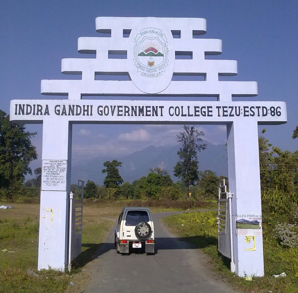 College